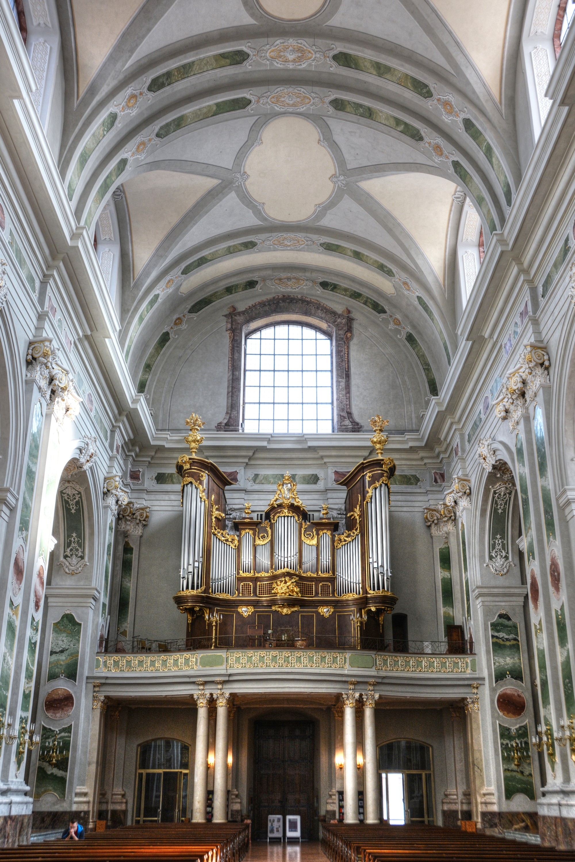 Jesuit Church, Mannheim, Germany, interior, view to entrance and organ